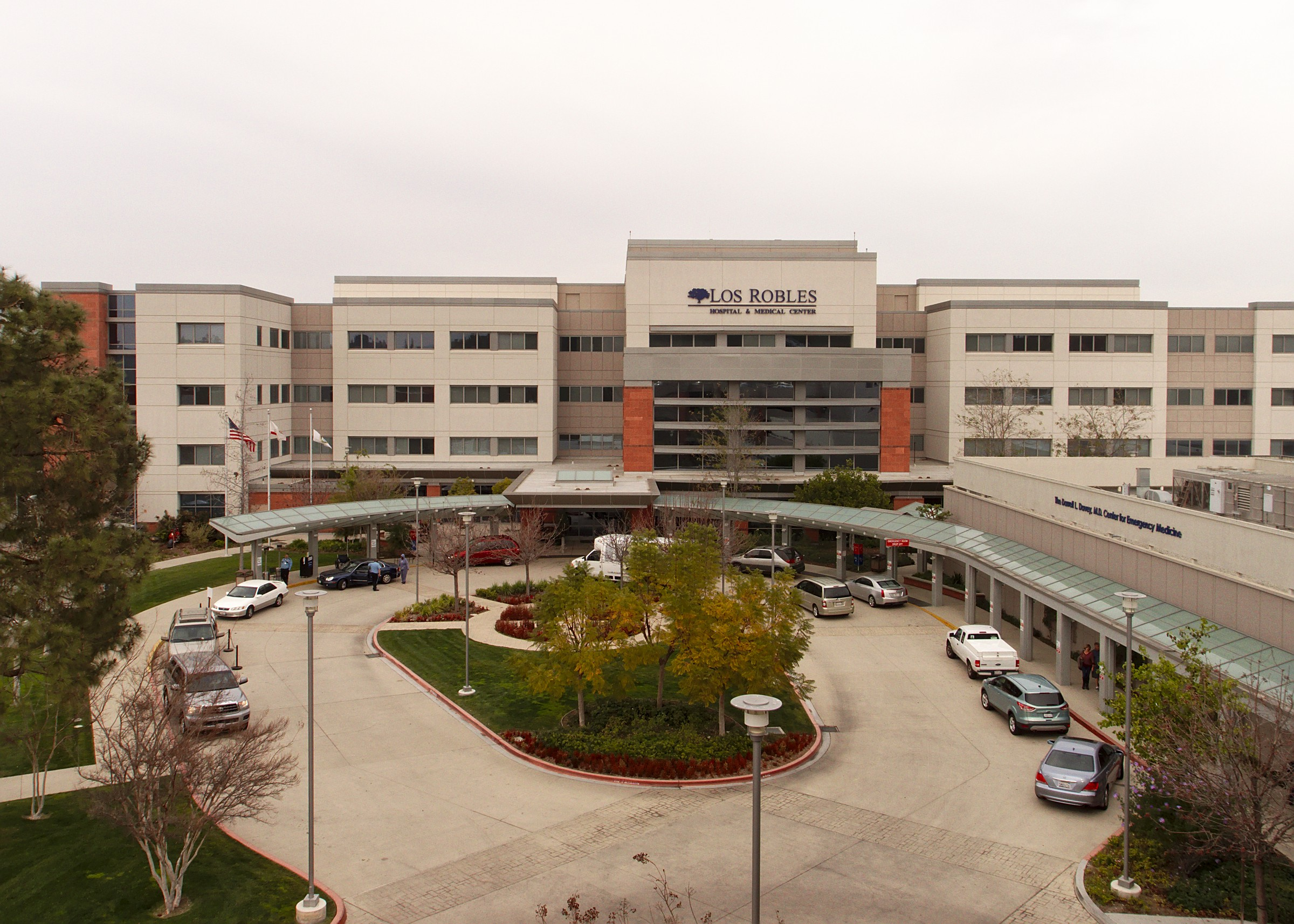 Los Robles Hospital and Medical Center in Thousand Oaks, California.